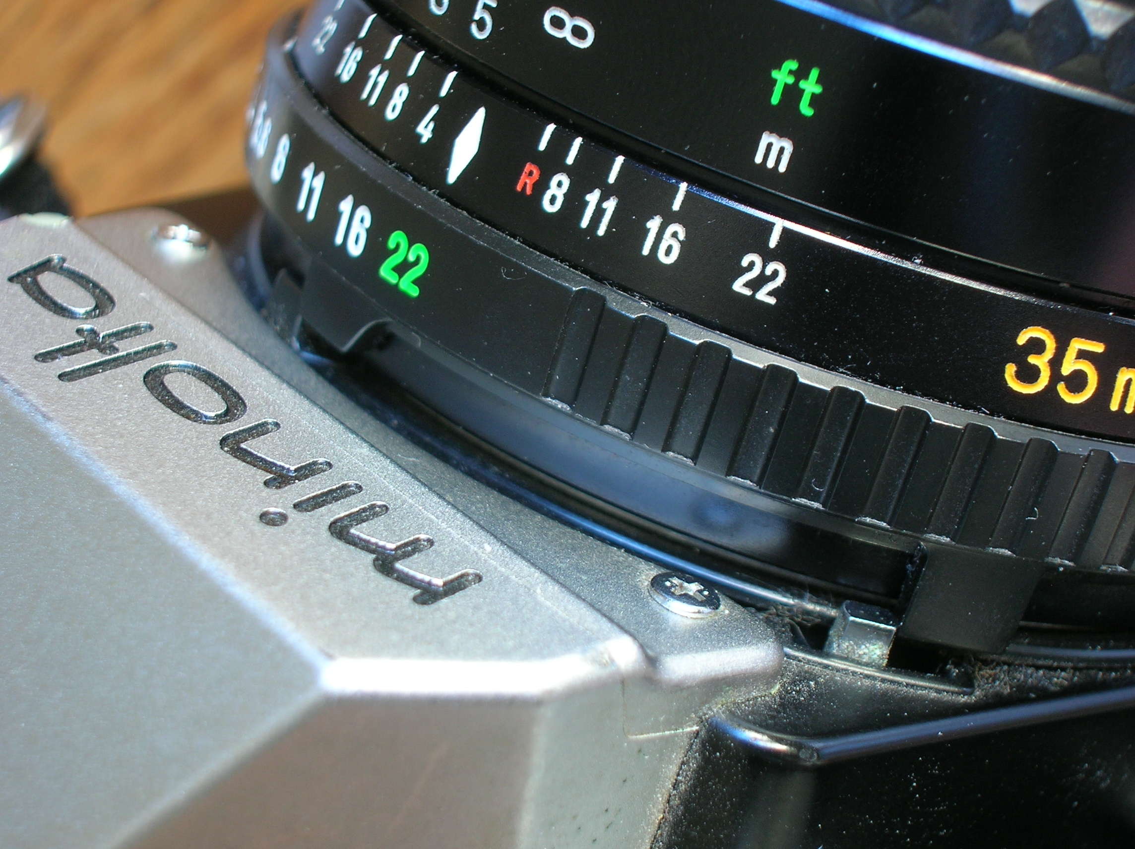 Minolta XD-5 and MD W.Rokkor 35mm 1:2.8 Set to f/22, the MD lug comes into effect. It presses the detector on the right up, and lets the camera know that the camera is at minimum aperture, and what that aperture is, so it can operate correctly in shutter-priority mode. More on Minolta manual-focus lens mounts at MINMAN; thread; Minolta MF FAQ